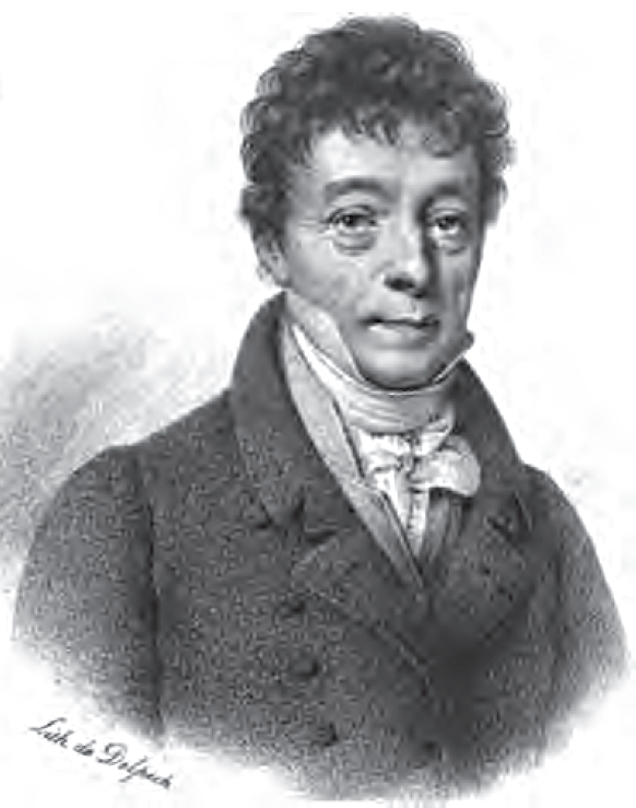 Portrait of Philippe Antoine Merlin, dit Merlin de Douai